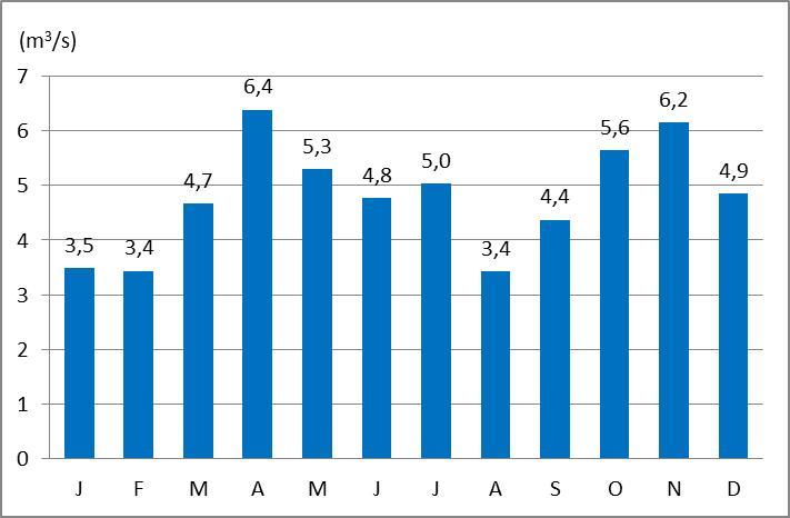 Average monthly discharges of Mislinja River at the gauging station Otiški Vrh in 1971–2000